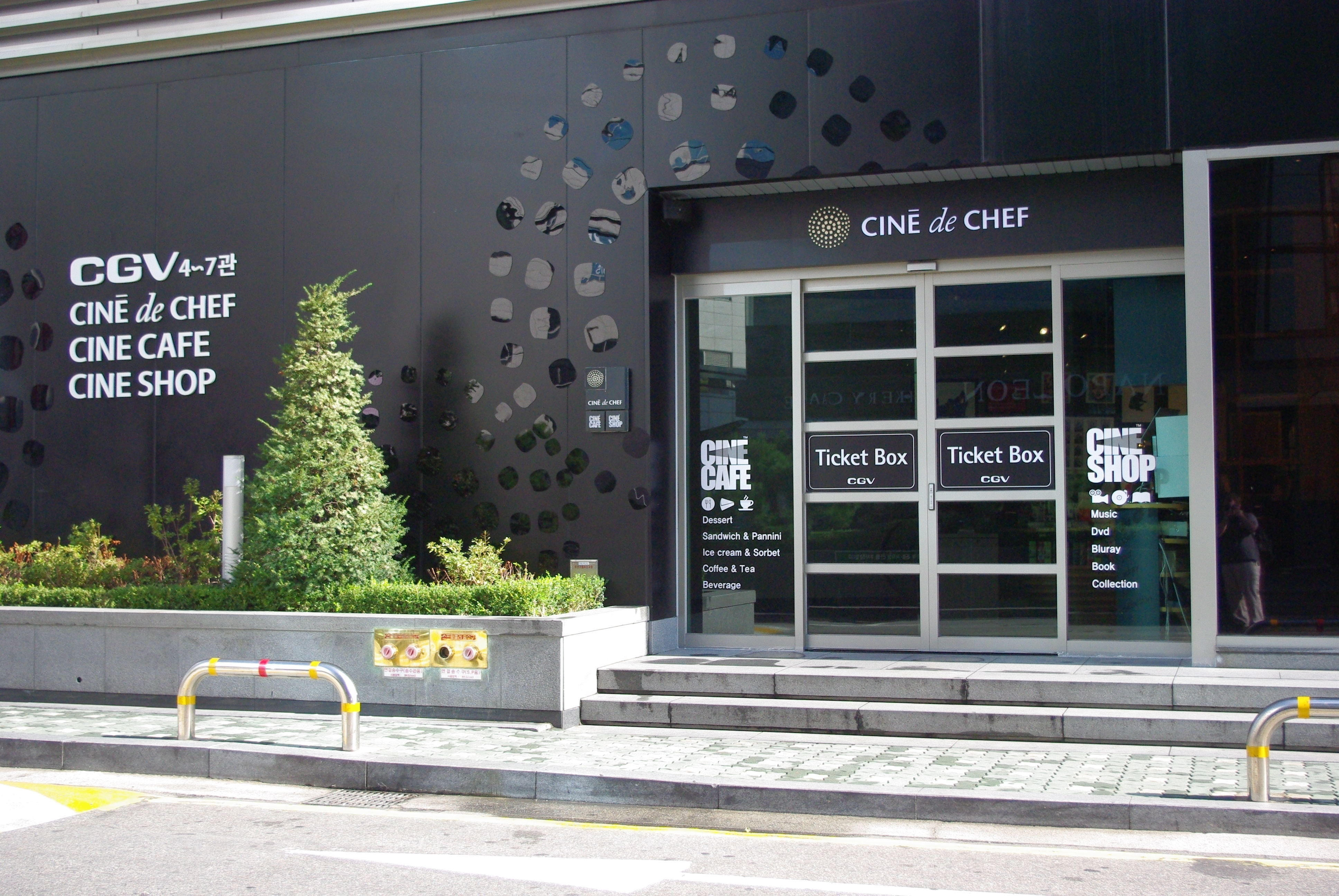 Cine de Chef main entrance